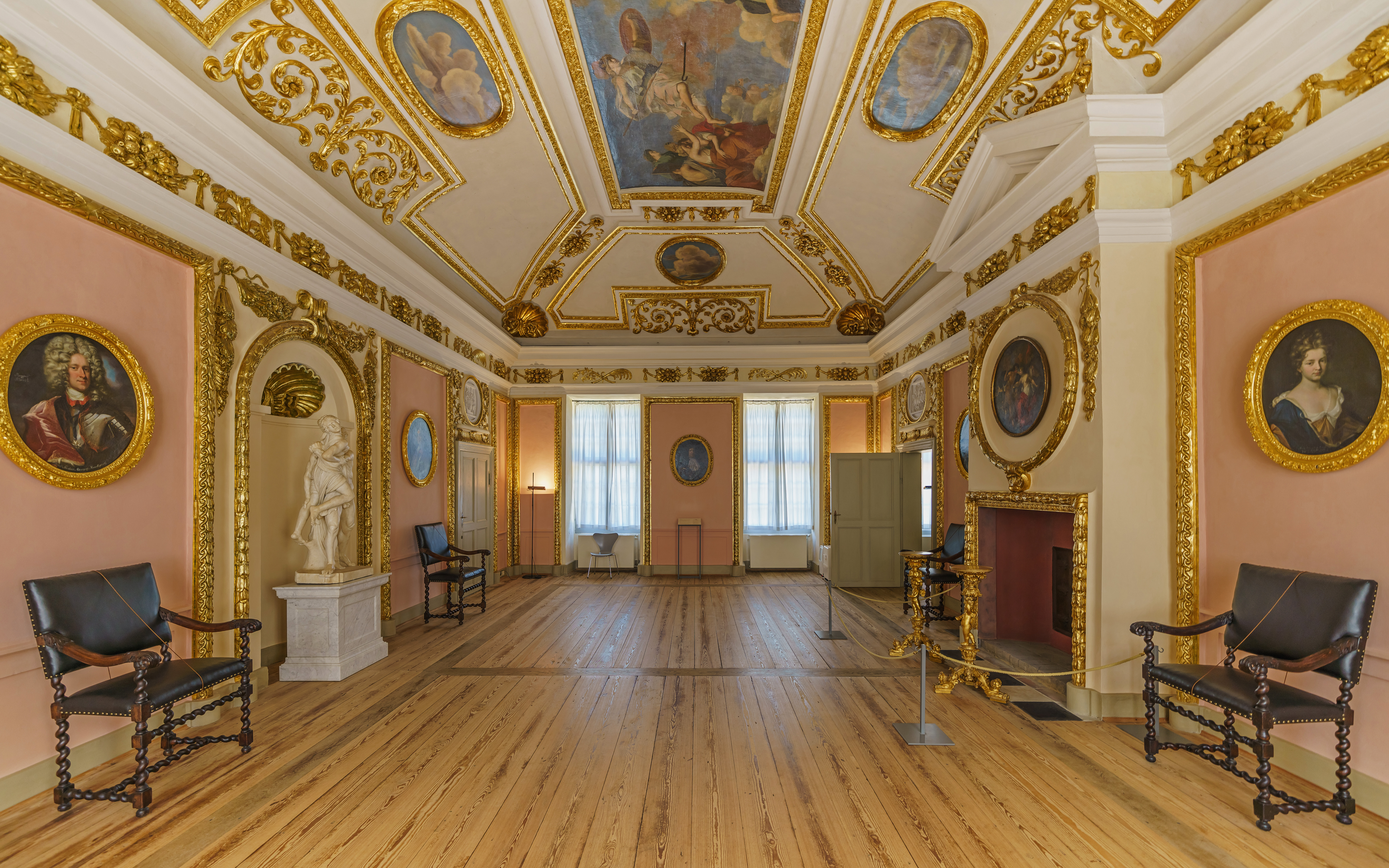 Interior of Caputh Castle near Potsdam, Germany